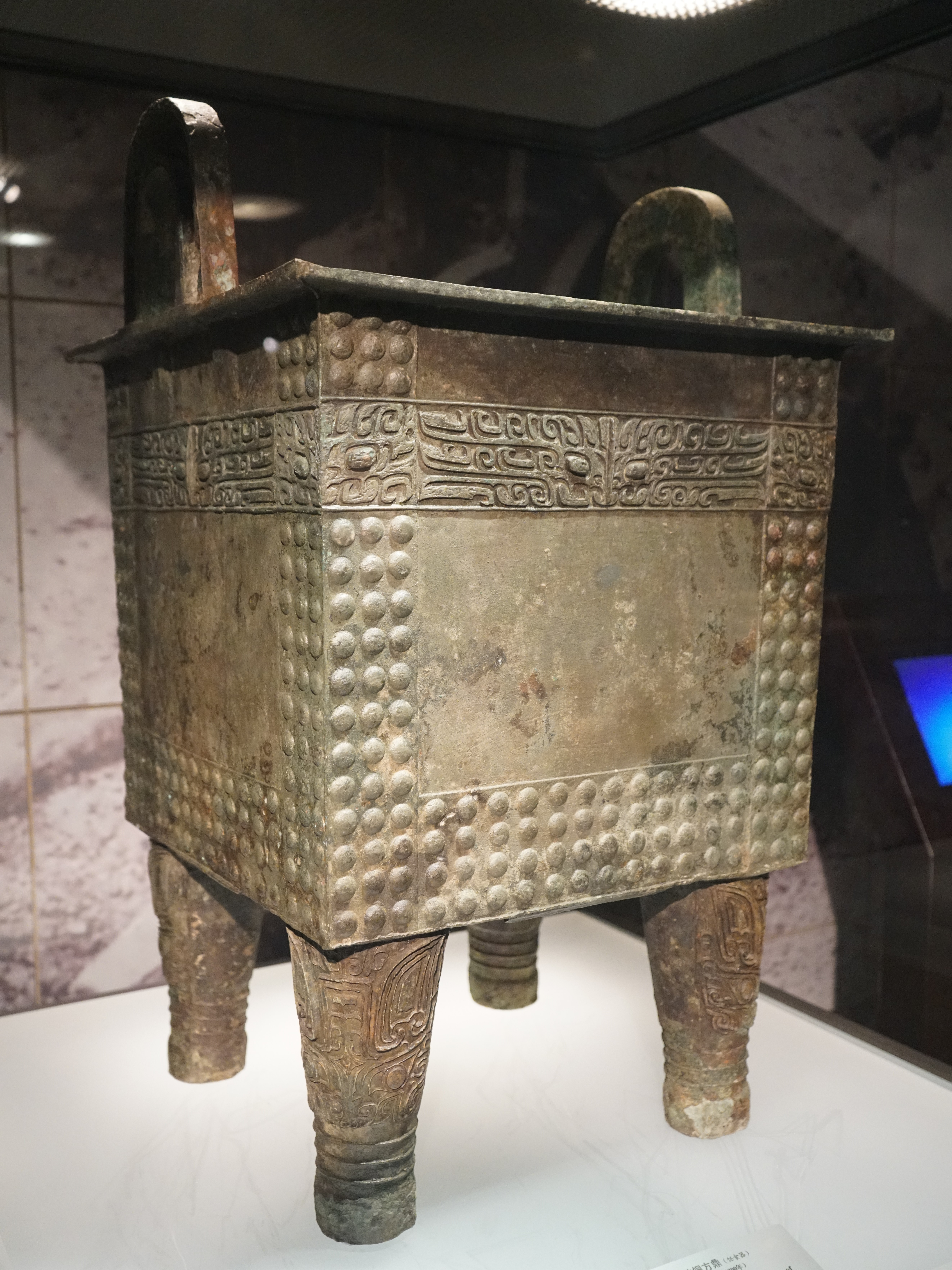 Bronze Rectangular Ding with design of animal-mask and nipple. 寿面乳钉纹铜方鼎 cooking vessel. Early Shang Dynasty. Excavated from a hoard, Nanshuncheng Road, Zhengzhou, 1996.